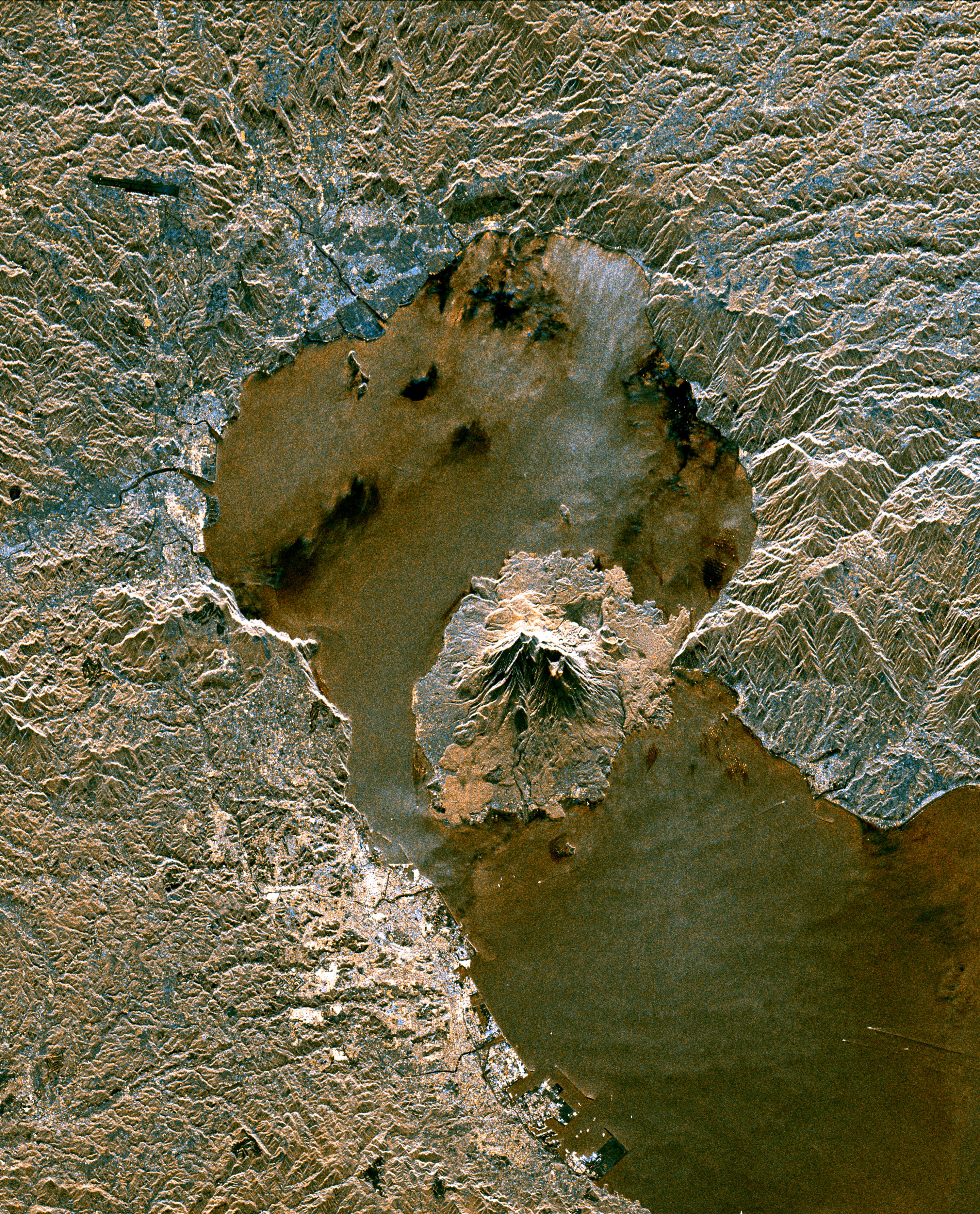 Sakurajima volcano and Aira Caldera from space. Original Caption Released with Image: The active volcano Sakura-Jima on the island of Kyushu, Japan is shown in the center of this radar image. The volcano occupies the peninsula in the center of Kagoshima Bay, which was formed by the explosion and collapse of an ancient predecessor of today's volcano. The volcano has been in near continuous eruption since 1955. Its explosions of ash and gas are closely monitored by local authorities due to the proximity of the city of Kagoshima across a narrow strait from the volcano's center, shown below and to the left of the central peninsula in this image. City residents have grown accustomed to clearing ash deposits from sidewalks, cars and buildings following Sakura-jima's eruptions. The volcano is one of 15 identified by scientists as potentially hazardous to local populations, as part of the international "Decade Volcano" program. The image was acquired by the Spaceborne Imaging Radar-C/X-Band Synthetic Aperture Radar (SIR-C/X-SAR) onboard the space shuttle Endeavour on October 9, 1994. SIR-C/X-SAR, a joint mission of the German, Italian and the United States space agencies, is part of NASA's Mission to Planet Earth. The image is centered at 31.6 degrees North latitude and 130.6 degrees East longitude. North is toward the upper left. The area shown measures 37.5 kilometers by 46.5 kilometers (23.3 miles by 28.8 miles). The colors in the image are assigned to different frequencies and polarizations of the radar as follows: red is L-band vertically transmitted, vertically received; green is the average of L-band vertically transmitted, vertically received and C-band vertically transmitted, vertically received; blue is C-band vertically transmitted, vertically received.